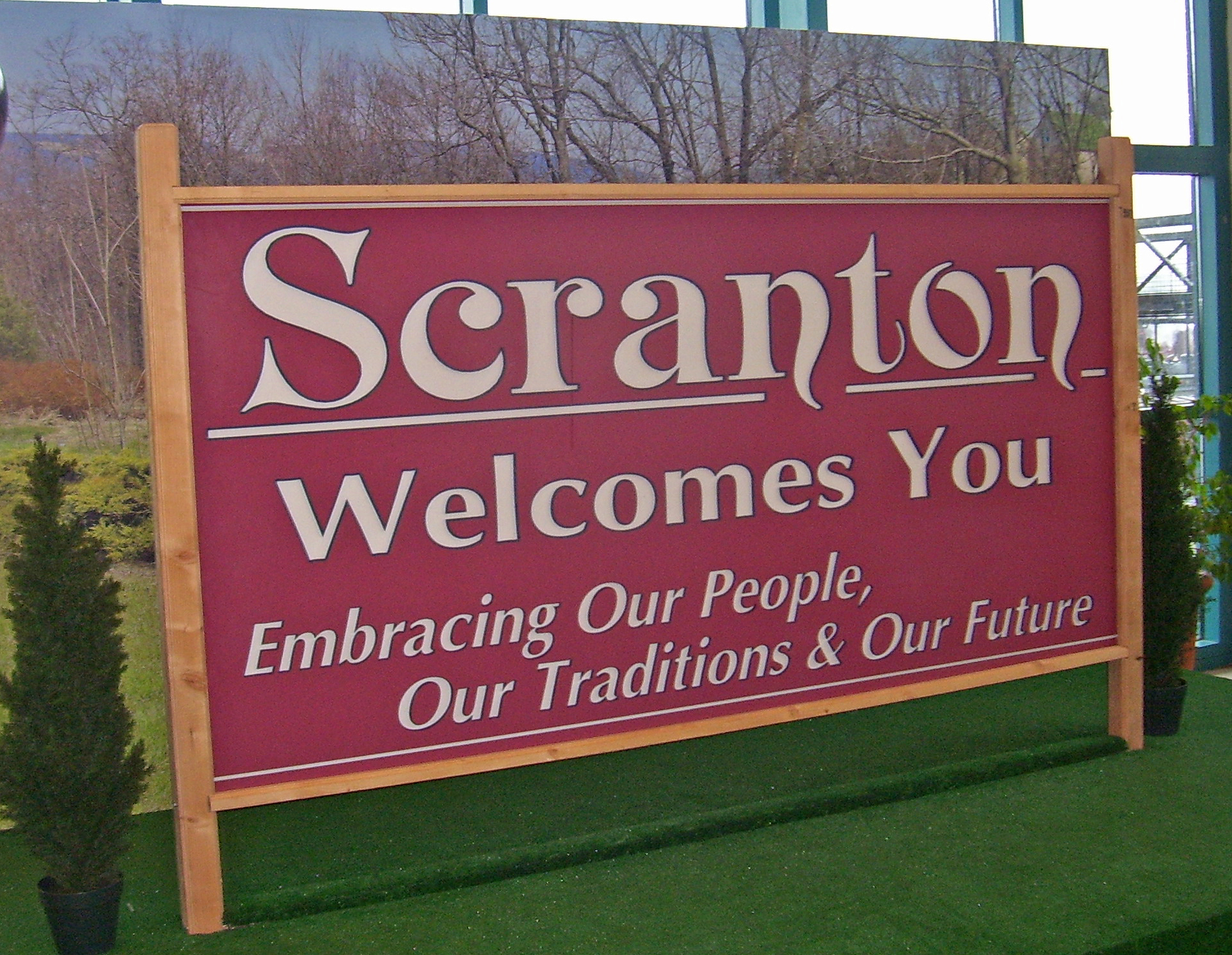 Scranton, PA, USA, welcome sign formerly displayed along I-81 and filmed there for opening credits of US version of The Office. Now on display in Mall at Steamtown food court, where this photograph was taken. Neither text nor font designs are eligible for copyright in US, and this sign is on display in a public place, thus covered by freedom of panorama.